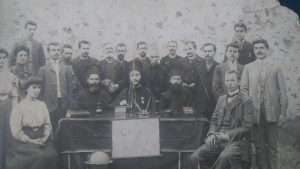 Petrich Bulgarian Municipality in 1908